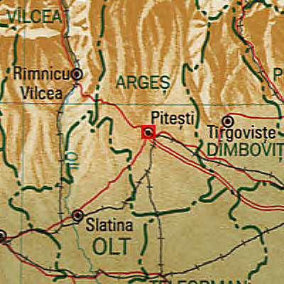 Map of Pitești Municipality, Romania.